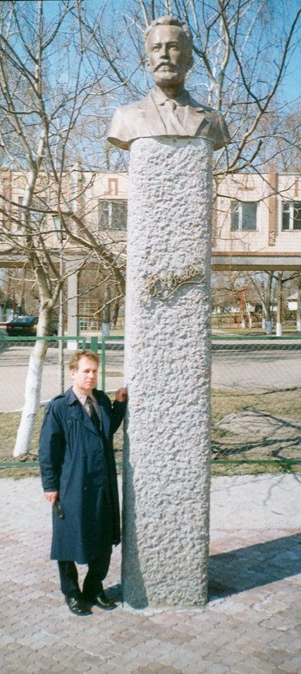 Погруддя першовідкривачеві Трипільської культури Вікентію Хвойці. Обухівський р-н. с.Трипілля на Київщині